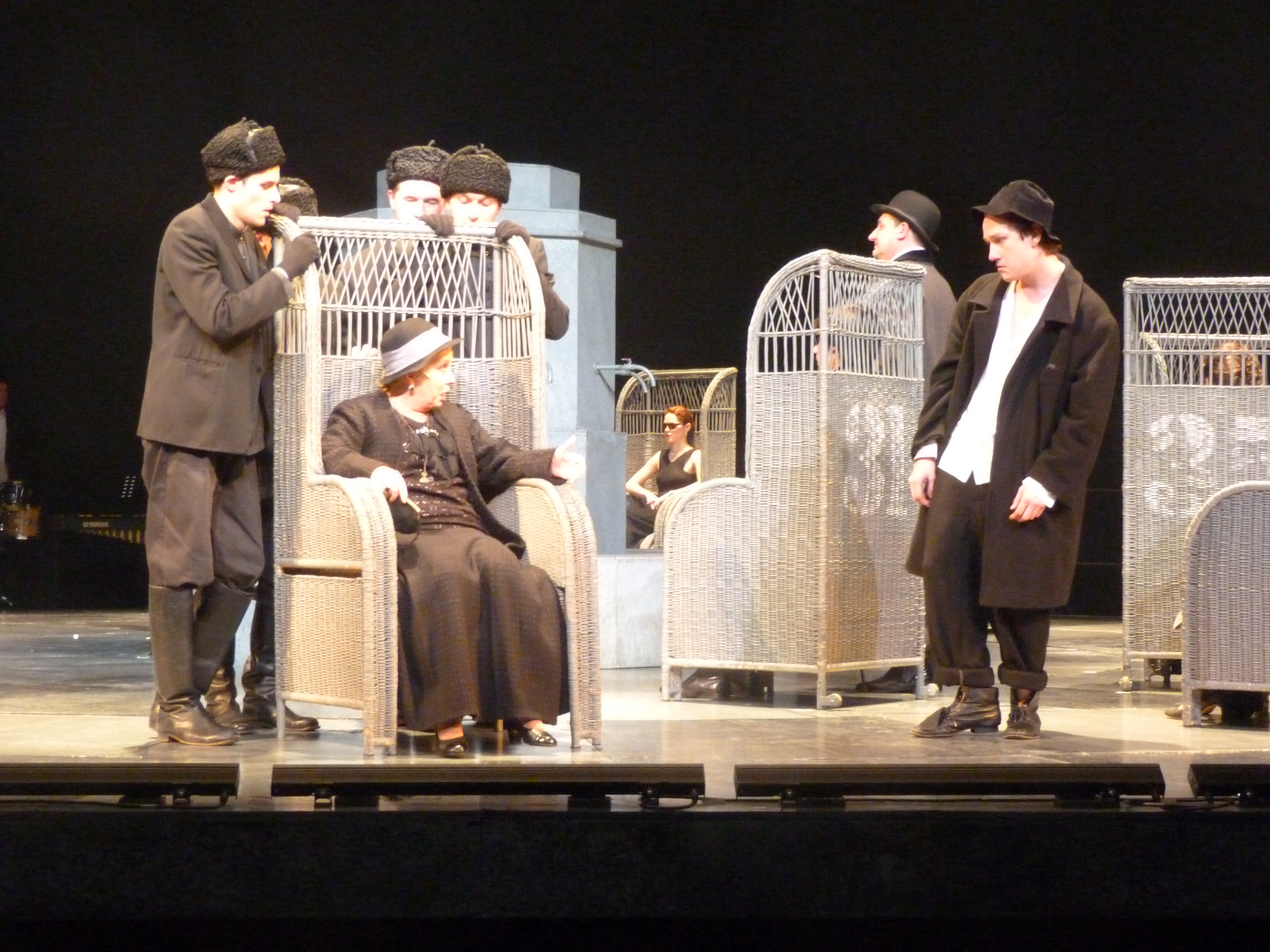 I. Madách International Theatre Meeting (MITEM) – 2014.03.26 From Dostoyevsky: The Gamble. Nemzeti Színház, Budapest, Hungary. Anton Shagin, Alexander Polamishev, Polina-Alexandra Bolshakova, Igor Volkov, Alexander Lushin, Sergey Parsin, Maria Lugovaya, Sergey Yelikov, Vasilisa Alexeyeva, Maria Zimina, Elena Vozhakina, Ivan Yefremov, Victor Shuralev, Ziganshina Era, Yushiran Meshchanov, Sergey Sidorenko, Igor Kroll, Kirill Zamyshlayev. Live on the first day of the Madách International Theatre Meeting. MITEM is not a competition. The goal of this gathering is is to develop a long-term and creative relationship among the theatres of Central Europe, our Paradise Lost. Zero Liturgy Tags: Vidnyánszky Attila Nemzeti Színház MITEM I. Madách Nemzetközi Színházi Találkozó 2014-03-26 Budapest 2014 Zero Liturgy Dostoyevsky The Gamble Sources: Vidnyánszky Attila: Hagyomány – korszerűség – nemzetköziség Nemzeti 2014. január. Hamarosan kezdődik a MITEM fesztivál Alexandrinsky Theatre ©© Derzsi Elekes Andor, Budapest, 2014, You are authorised to use these photos and vids under Creative Commons – even for commercial, for profit purposes. Photos must be attributed to Derzsi Elekes Andor. All of the photos and vids in the Metapolisz DVD line are under Creative Commons and can be used even for commercial – for profit – purposes. Recommended Citation Derzsi Elekes Andor: Metapolisz DVD line